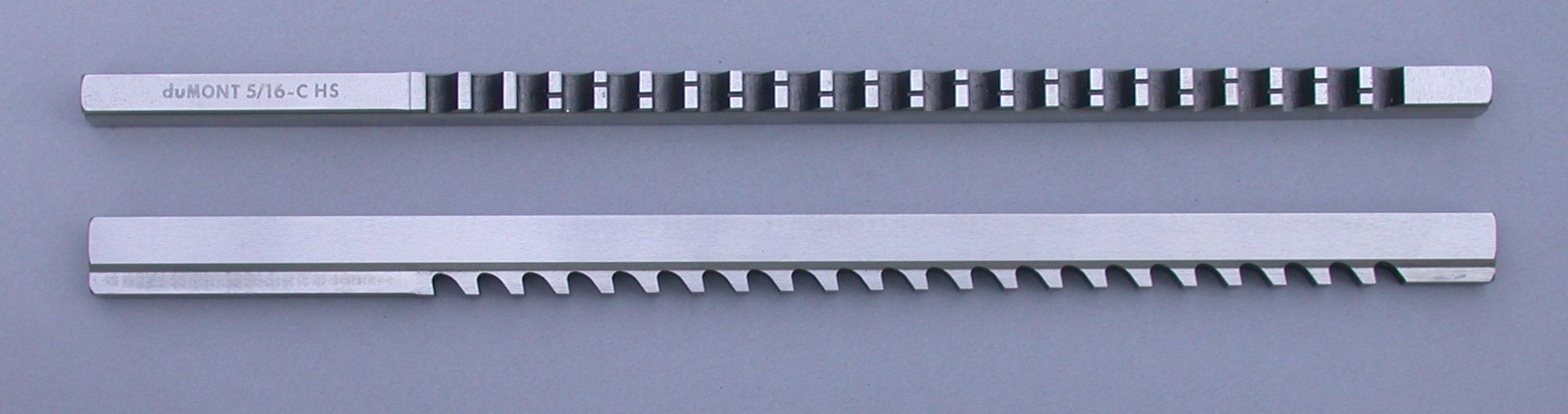 A push style 5/16" keyway broach